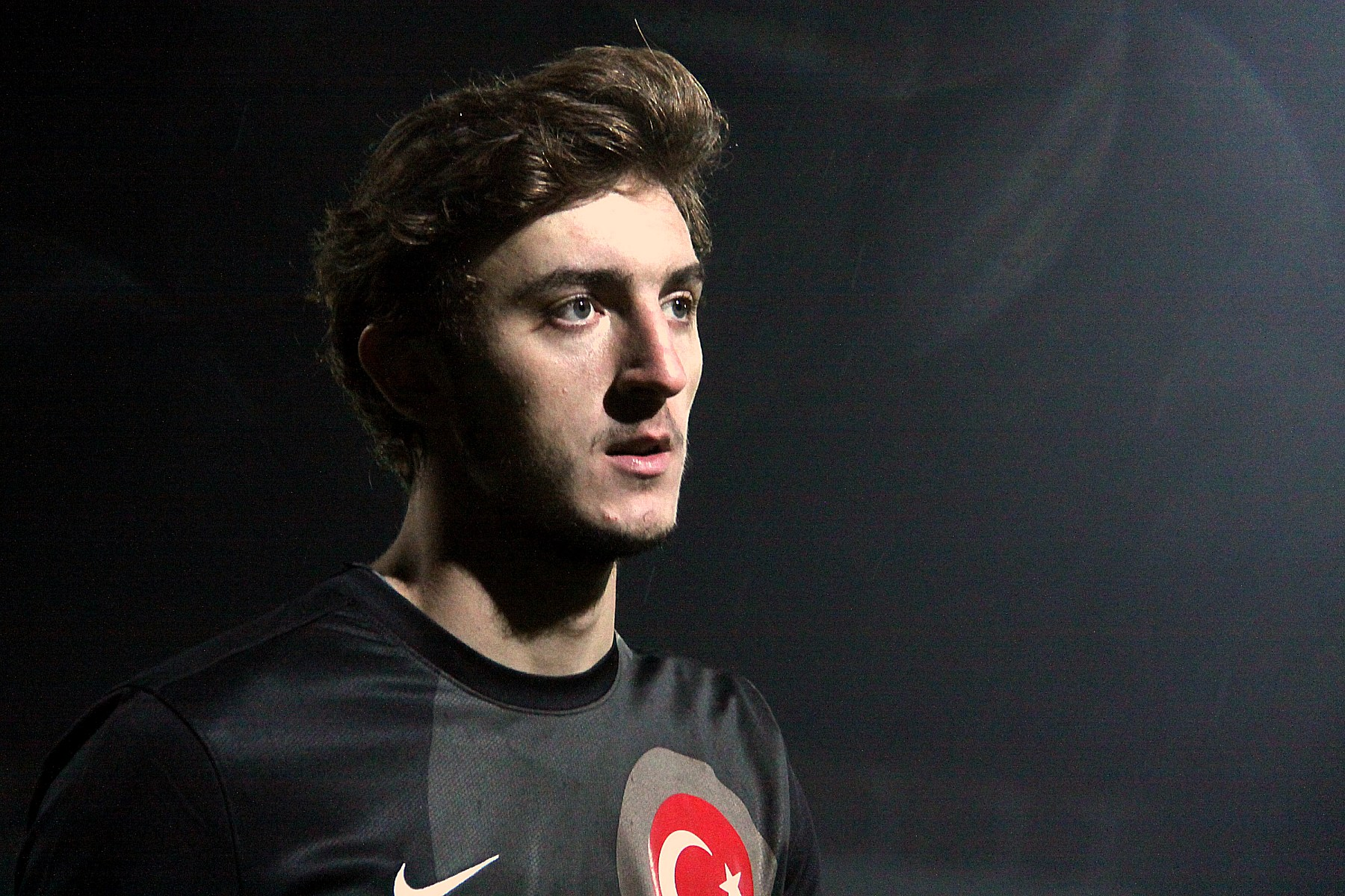 Friendly-match Austria U-21 vs. Turkey U-21 (2:0) on 2013-11-14 in Wiener Neudorf. – The photo shows Ozan Evrim Özenç (Denizlispor, Turkey).